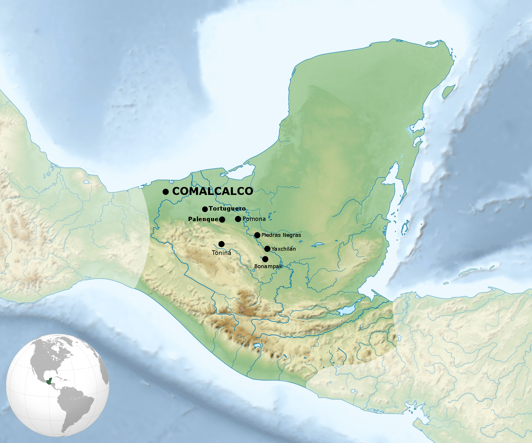 A map of the eastern classical Maya polities, with Comalcalco bolded